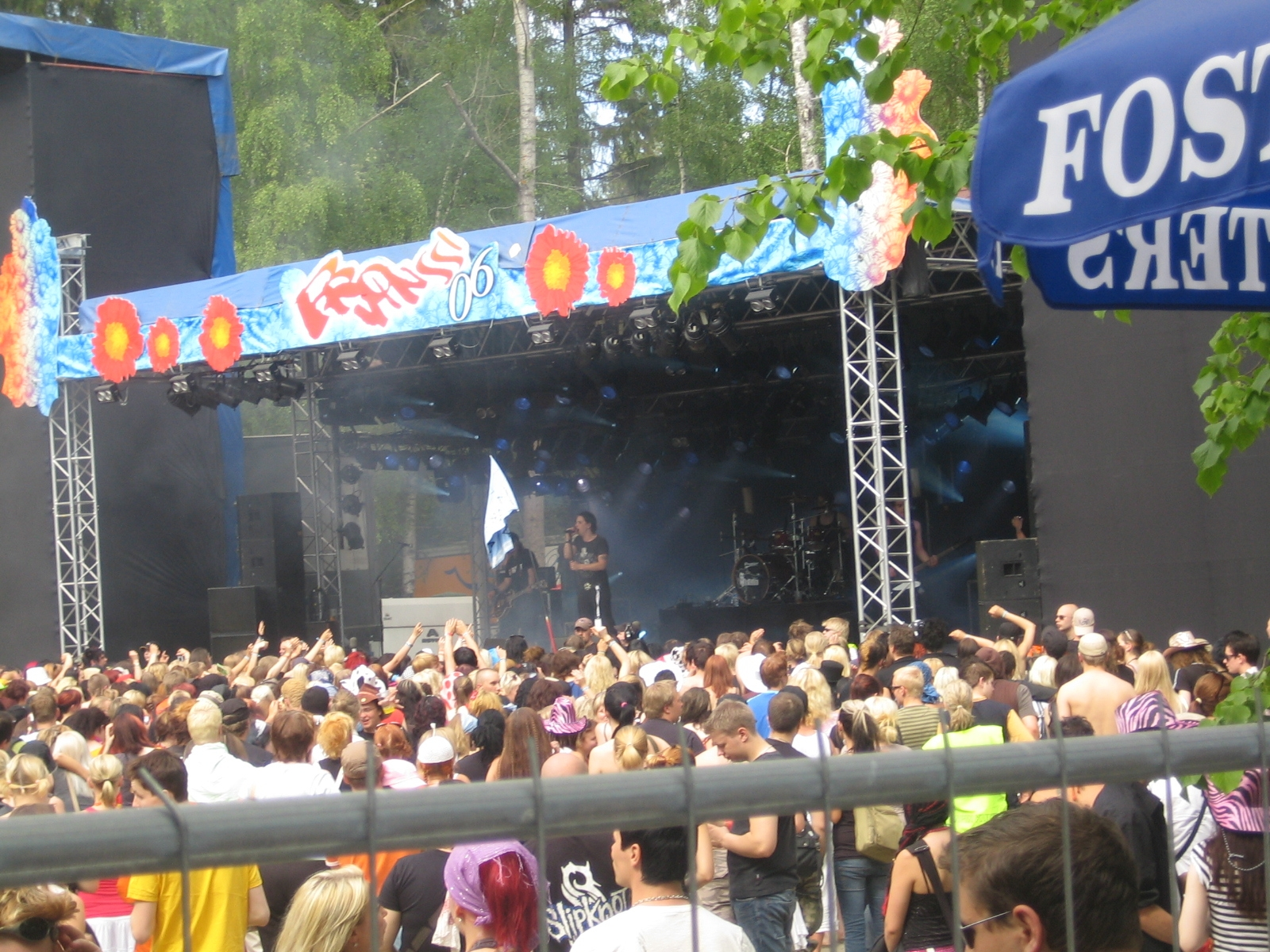 scenery from provinssirock 2006